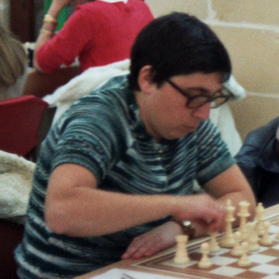 Luba Kristol at the Chess Olympiad 1980 in Malta, Photographer Gerhard Hund.